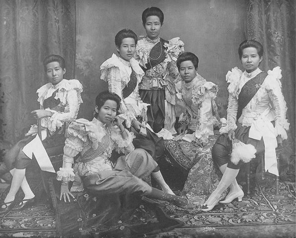 Siamese Princess (from left): Princess Nabhaborn Prabha, Princess Pradittha Sari, Princess Suddha Dibyaratana, Princess Busbanbuaphan, Princess Phuangsoisa-ang and Queen Sukhumala Marasri